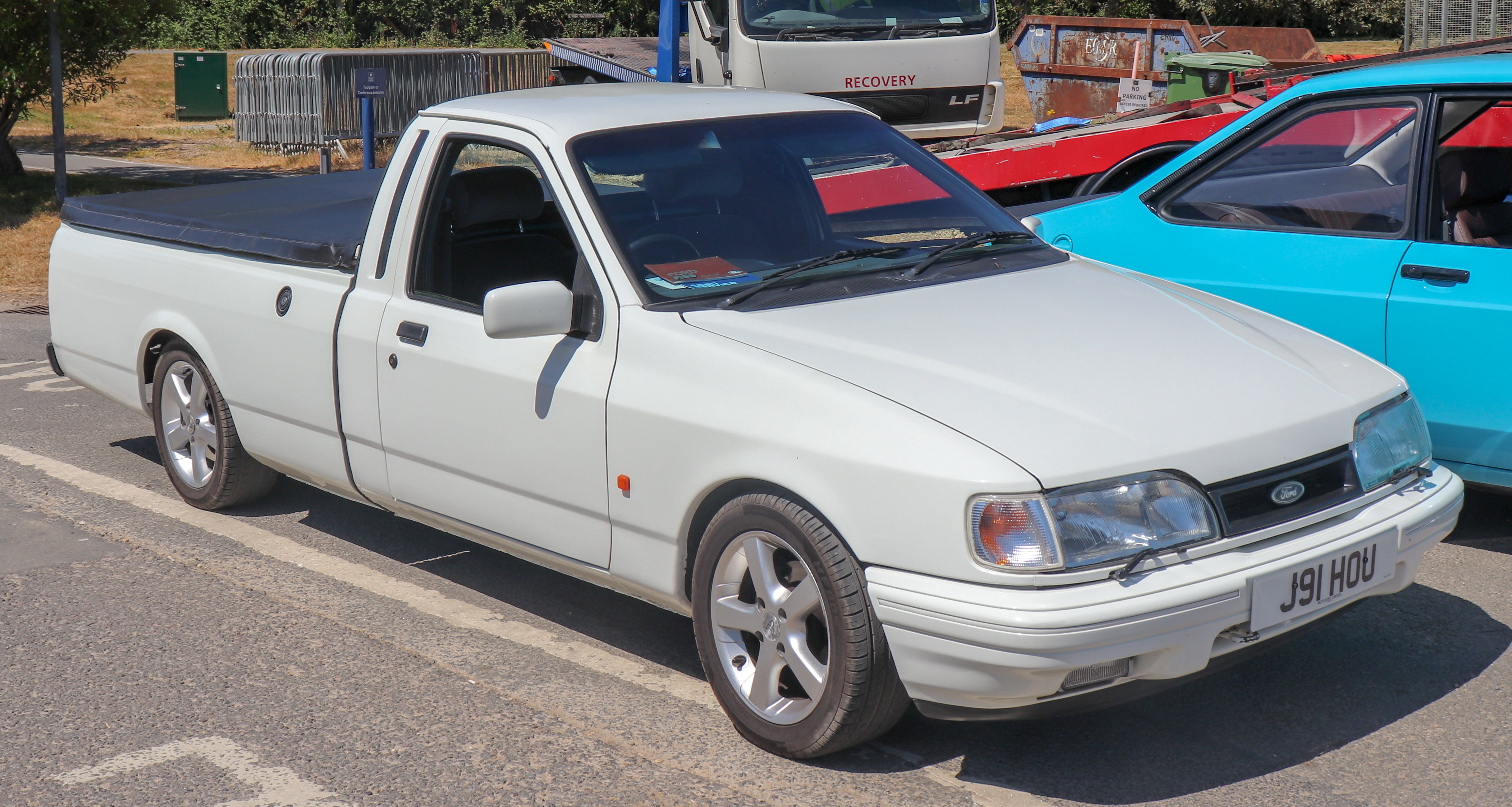 1992 Ford P100 Turbo Diesel 2.0 Front Taken at the British Motor Museum Old Ford Rally 2018, Gaydon